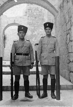 Member of the Jewish Supernumerary Police (Ghaffir).